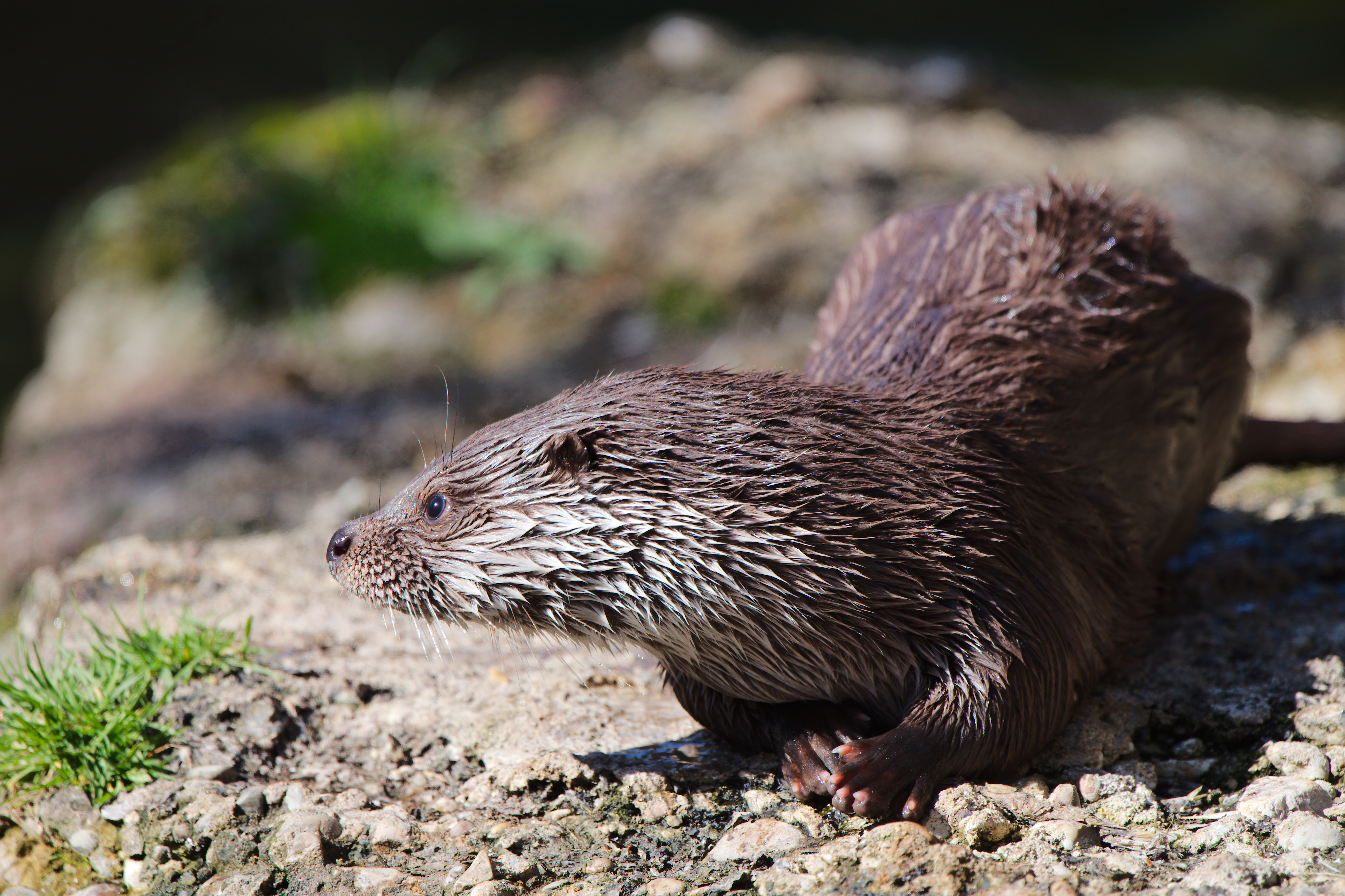 European otter